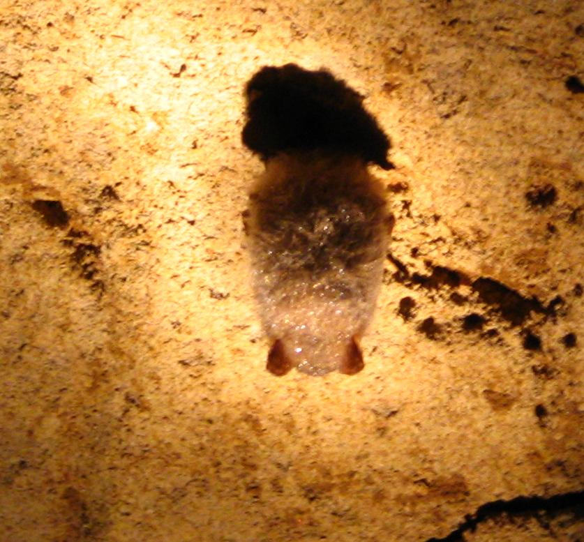 A bat hibernating on a cave wall